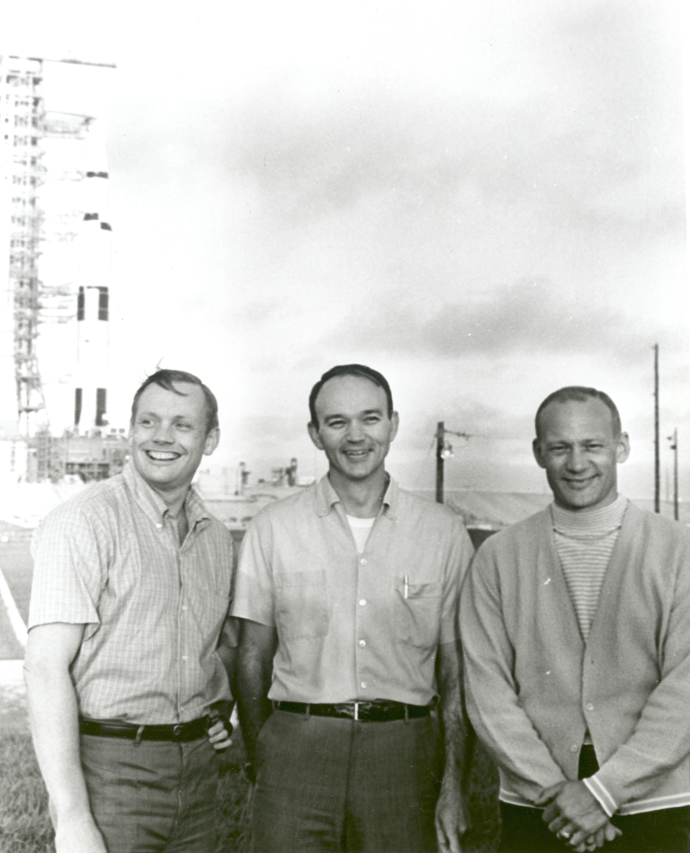 NASA's Apollo 11 flight crew, Neil A. Armstrong, commander; Michael Collins, command module pilot; and Buzz Aldrin, lunar module pilot stand near the Apollo/Saturn V space vehicle that would eventually carry them into space on July 16, 1969.